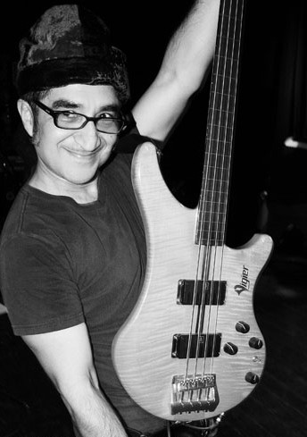 John Avila performing with The Mutaytor at the House of Blues, Anaheim, California